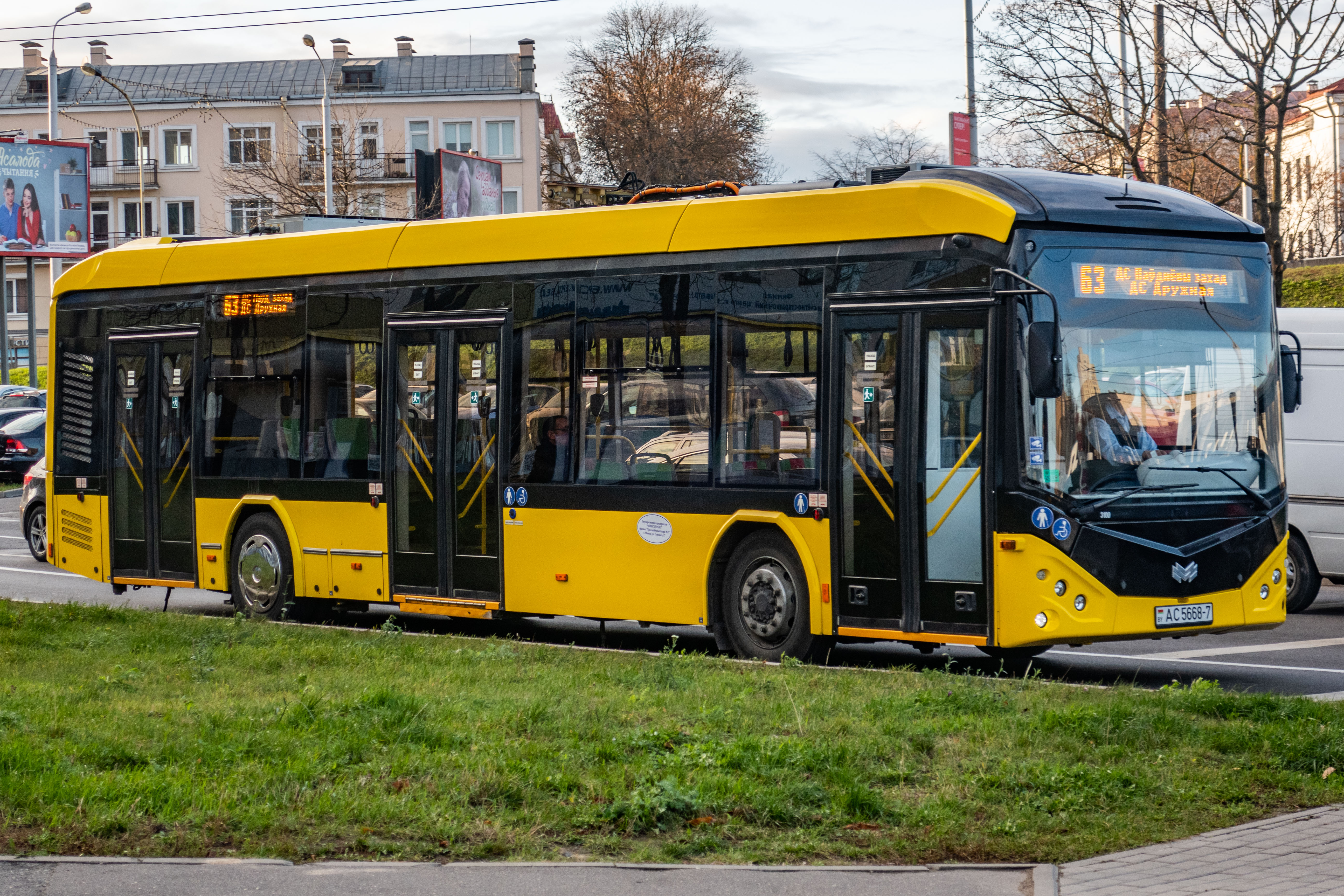 Belkommunmash AKSM E321 electrobus. Minsk, Belarus